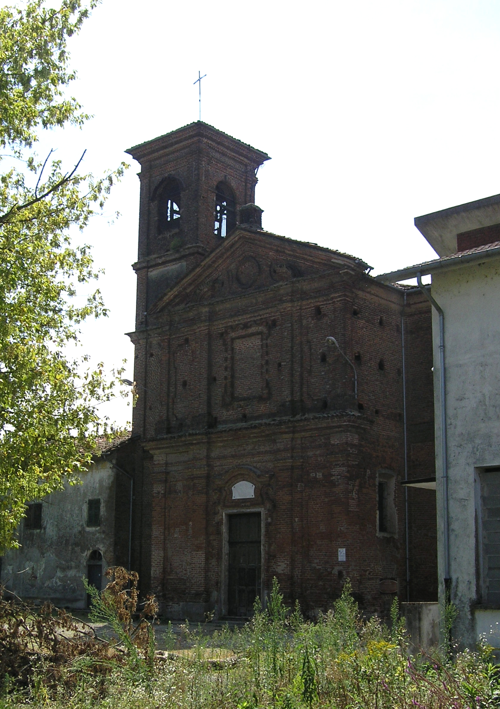 Church, probably by Francesco Gallo, at Leri Cavour (Italy)